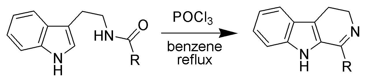 Description: Reaction scheme of the Bischler-Napieralski reaction. Author, date of creation: selfmade by ~K, 31 August 2005. Source: - Copyright: Public domain. (PD) Comments: high-resolution b/w PNG; ChemDraw / The GIMP.